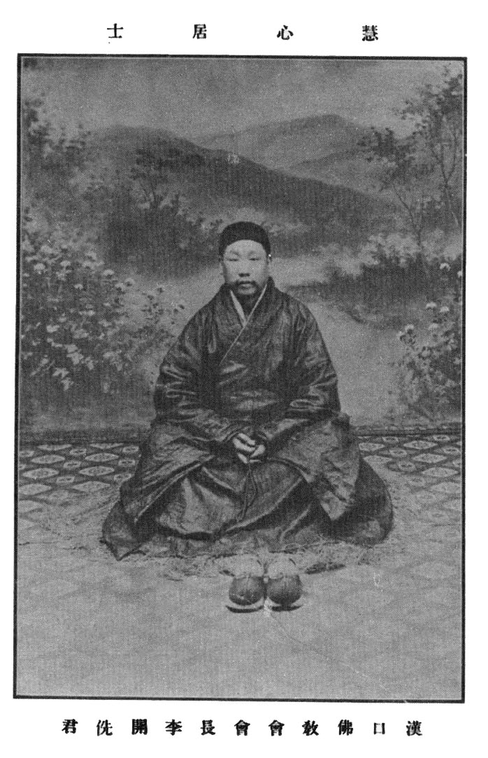 Li Kaishen